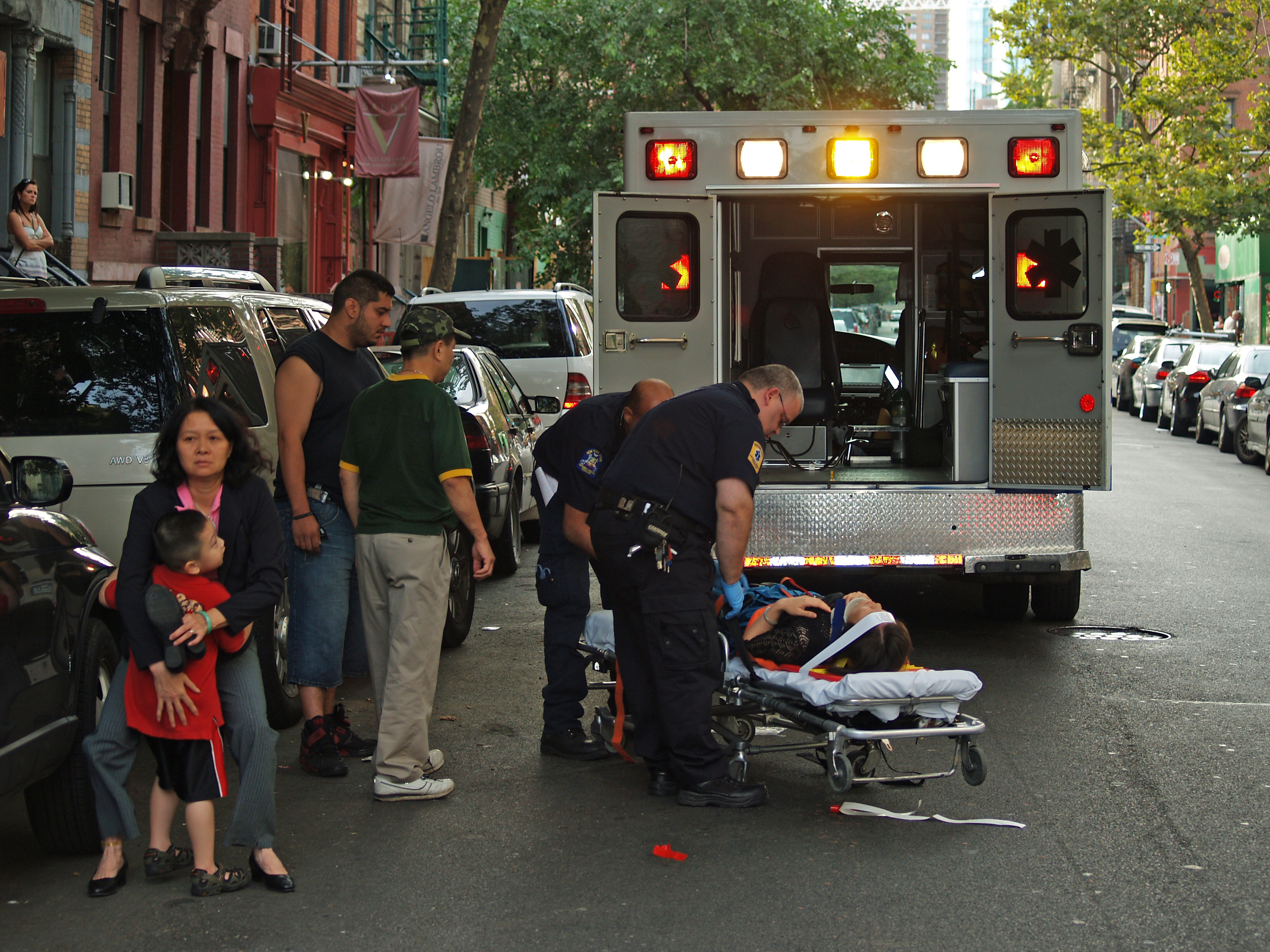 A woman collapsed on 7th Street in the East Village when she was with her family. Emergency Medical Technicians arrived and took her to the hospital as her mother and son stand nearby hugging.